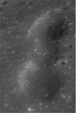 LROC NAC M126907915RE (note: original NAC image is rotated by 180 degrees)